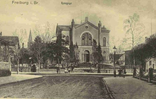 Synagogue in Freiburg in Brisgau (Germany) destroyed in 1938 during the November Pogrom. Old postcard